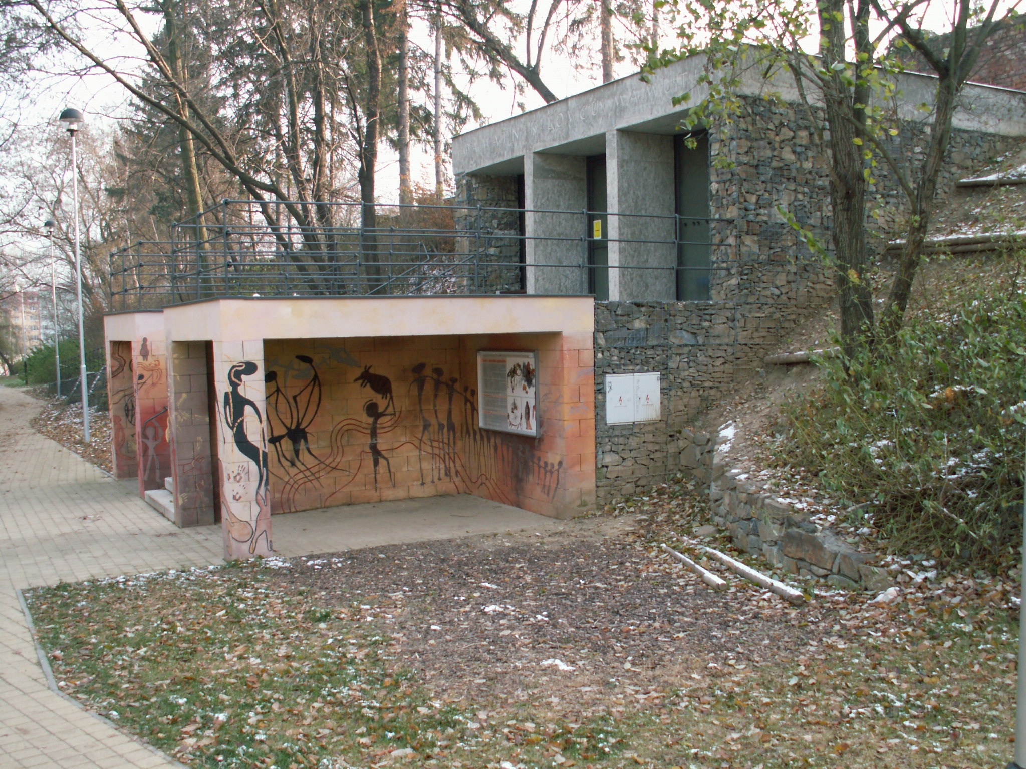 Memorial of mammoth hunters in Předmosti by Přerov (Czech Republic)